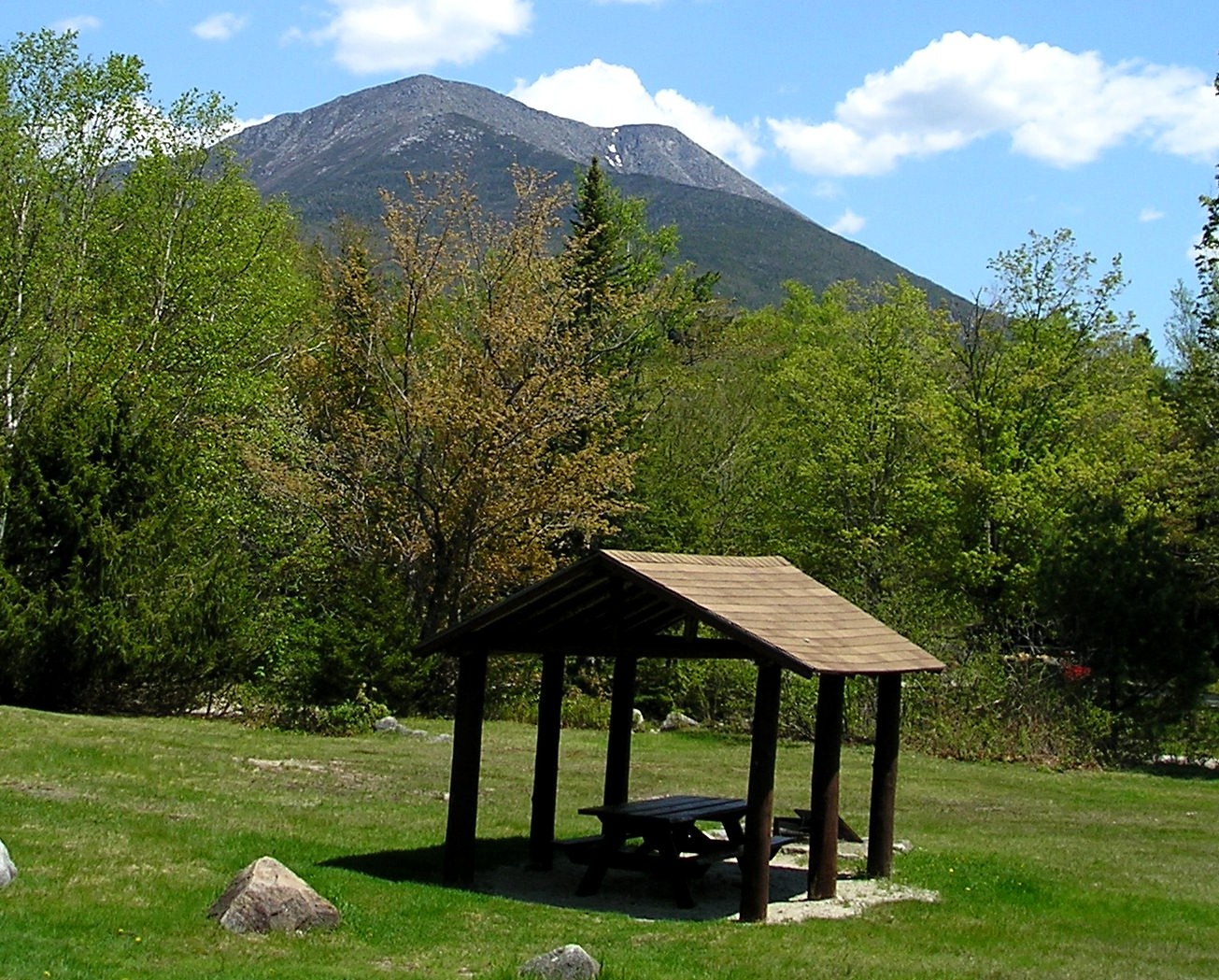 Photo of Katahdin taken by TJ aka Teej inside Baxter State Park, from the Appalachian Trail as it passes through Katahdin Stream Campground.